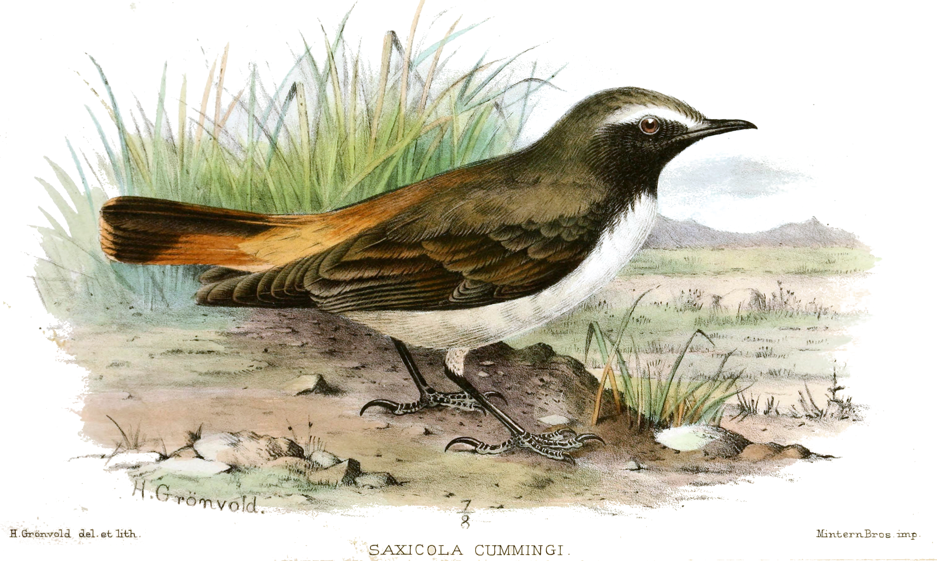 Saxicola cummingi=Oenanthe xanthoprymna